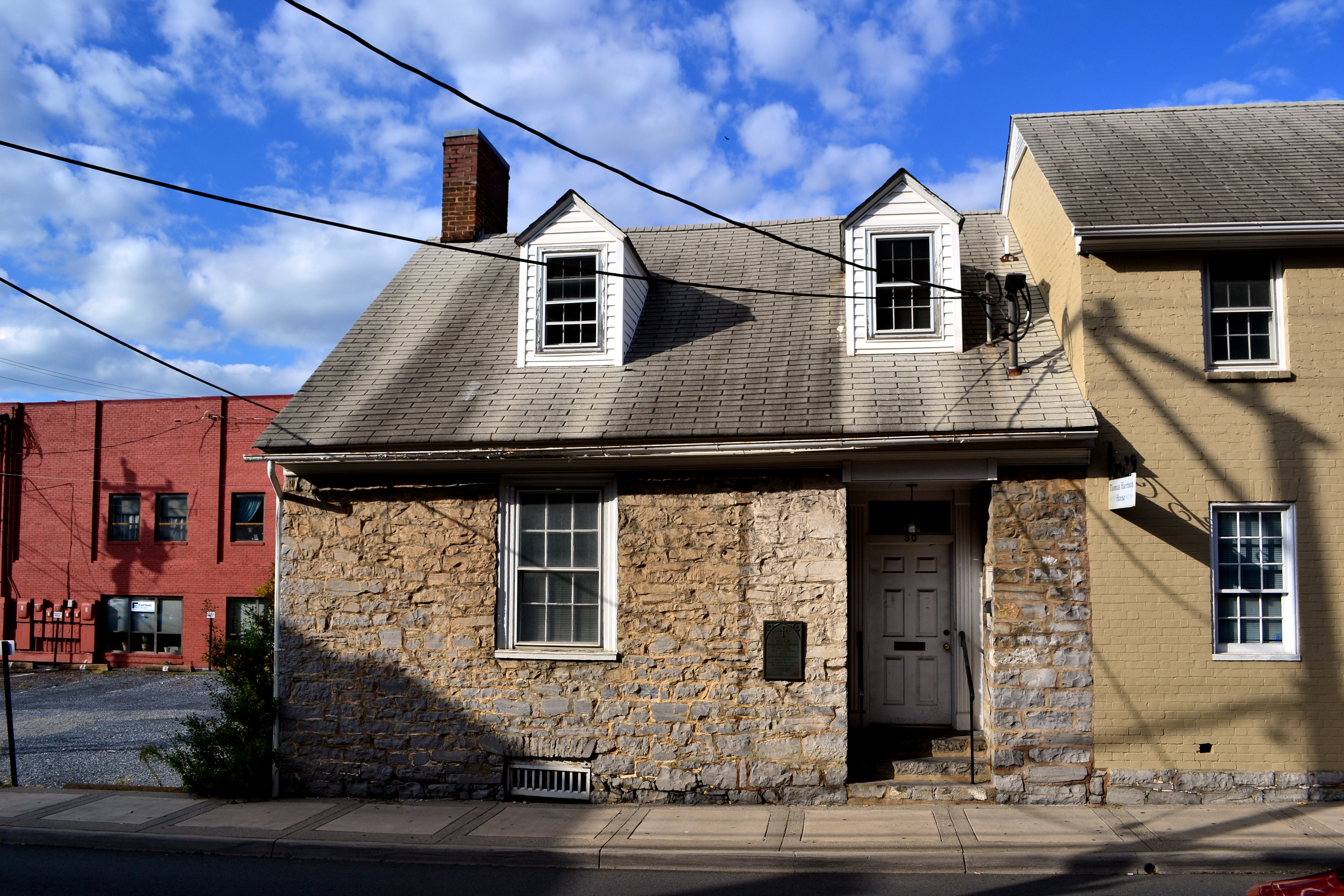 The Harrison House (formerly the Thomas Harrison House), 30 W. Bruce St. Harrisonburg